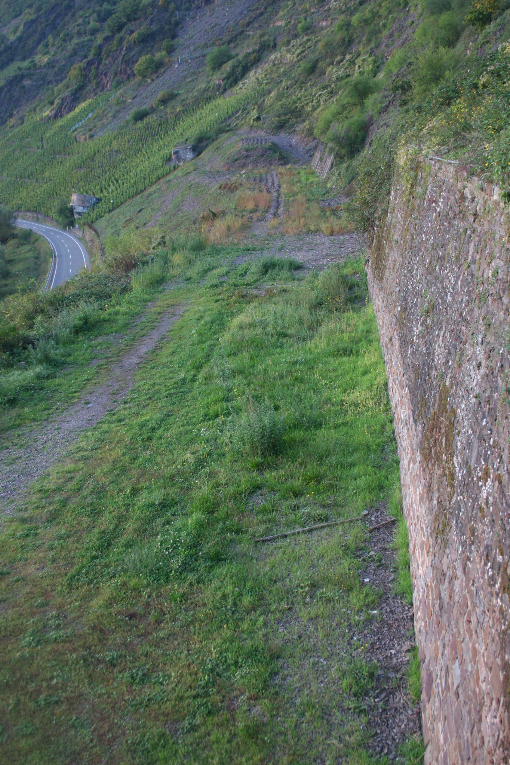 View towards the former southern entrance of the Treiser Tunnel, destroyed in 1946, north of the village of Bruttig on the Mosel river. Remnant of a planned and partially built, but never completed strategic railway. Two water tanks built of concrete can be seen in the far left. The watertanks, built in 1944, were part of the constrution site for electronic devices within the tunnel. Inmates of the Concentration Camp of Bruttig-Treis had to work there.